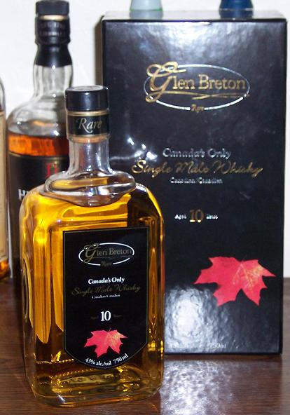 I took this picture of a bottle of Glen Breton Rare.